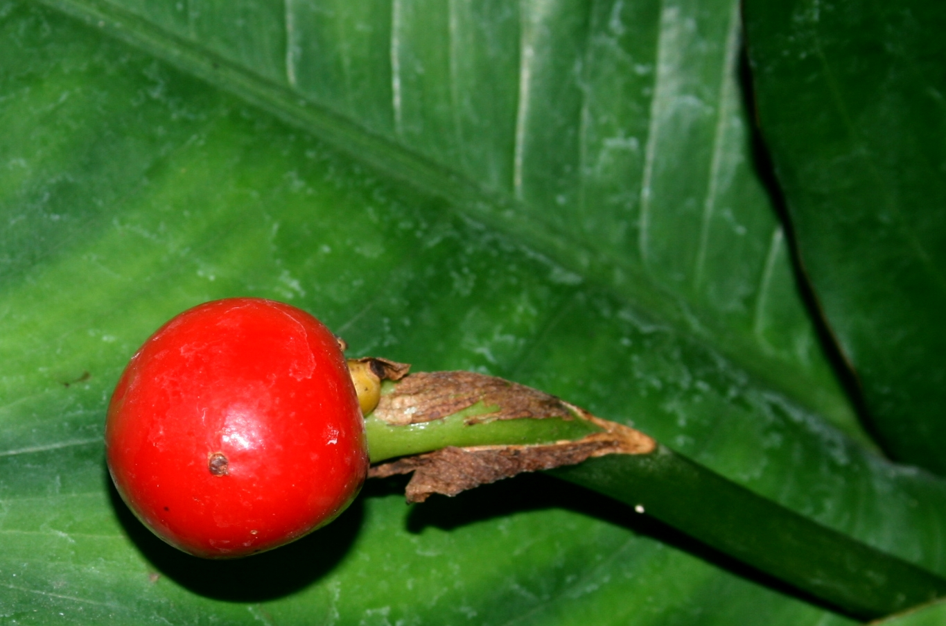 Anthurium bakeri: Fruit (Århus Botanical Garden)